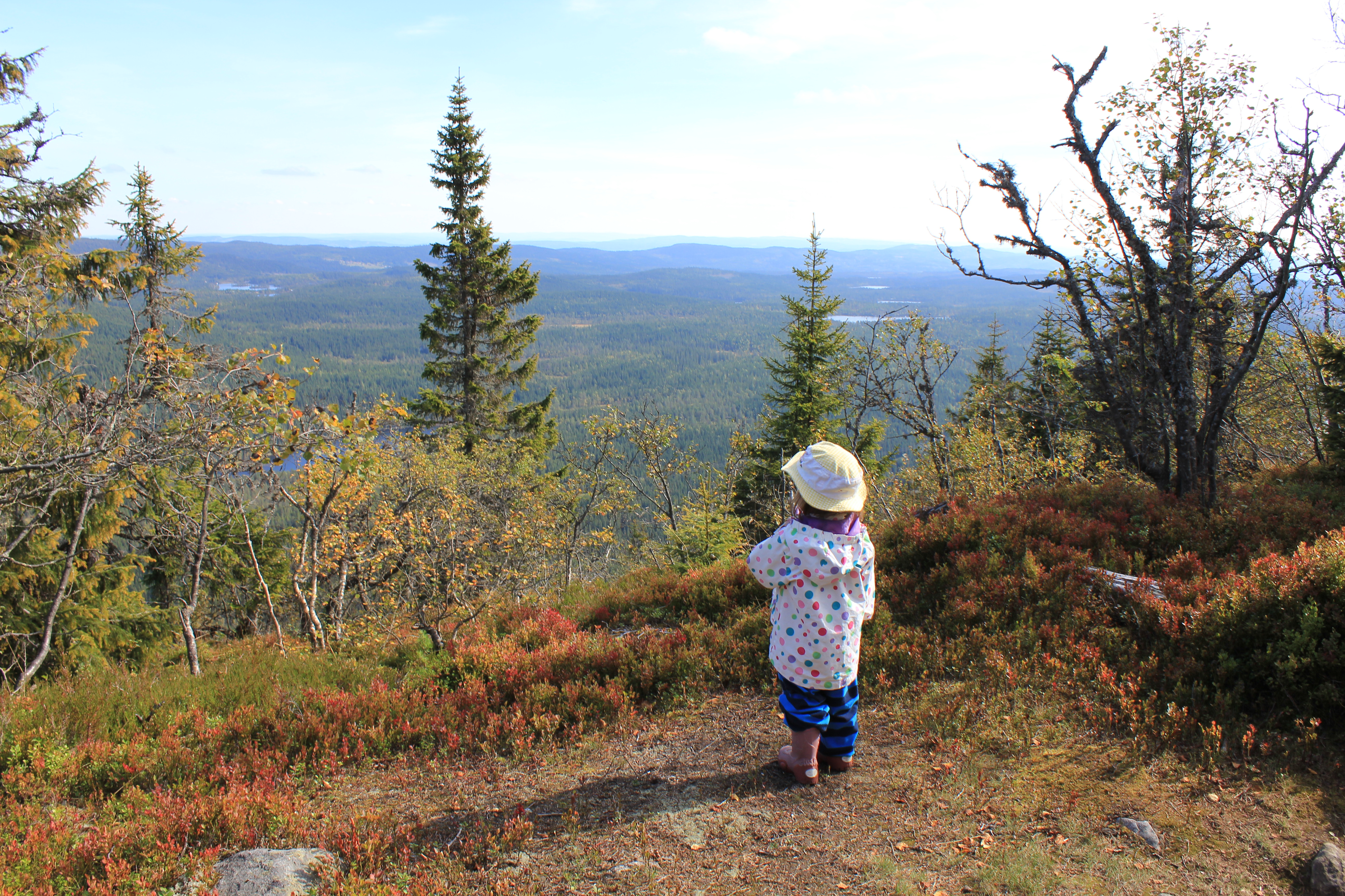 View from Torsæterkampen at Totenåsen Hills. From Østre Toten, Oppland, Norway.